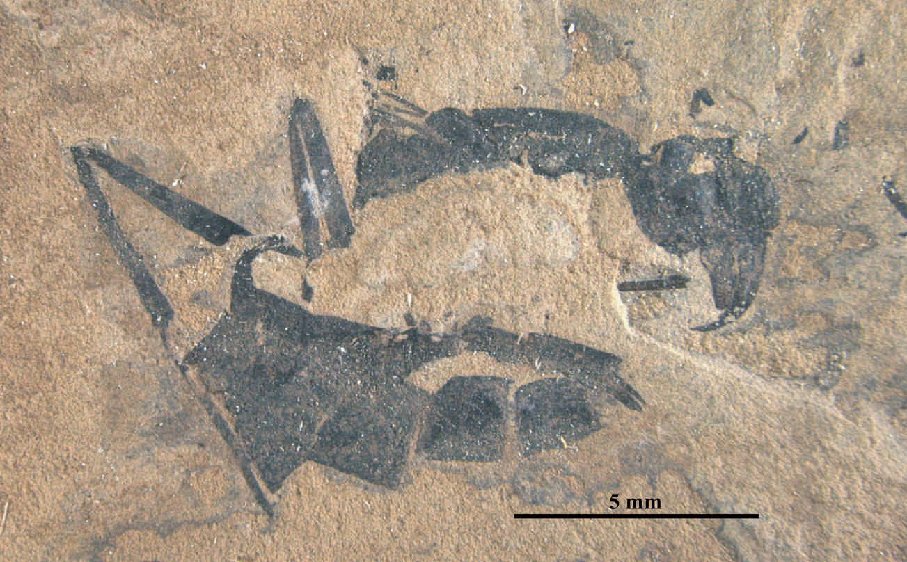 Profile view of the Archimyrmex piatnitzkyi holotype. (syn=Ameghinoia piatnitzkyi) Late Oligocene or Early Miocene?; Ventana Formation, Argentina Museo Argentino de Ciencias Naturales Bernardino Rivadavia, Buenos Aires, Argentina